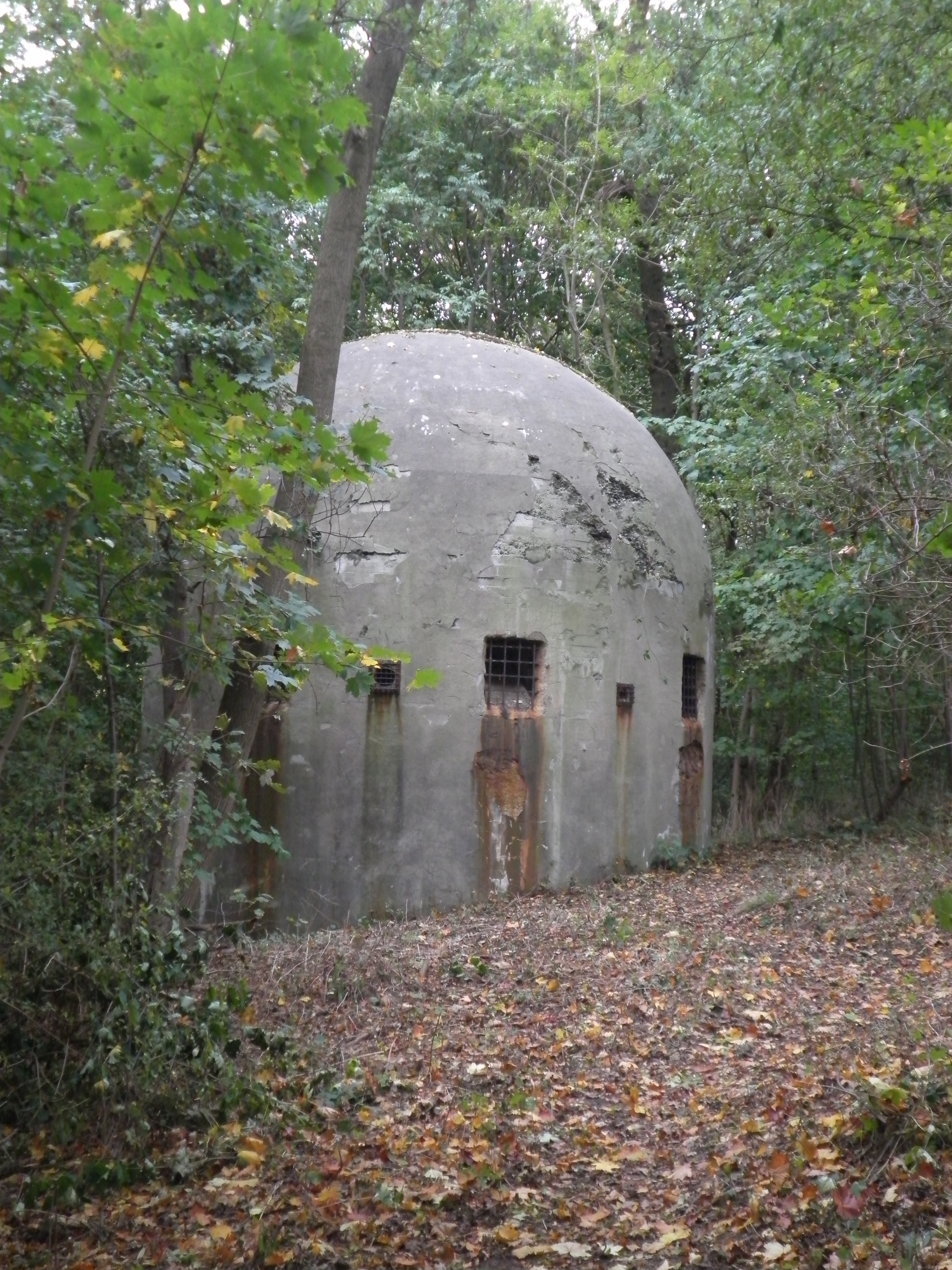 Fort Eben-Emael